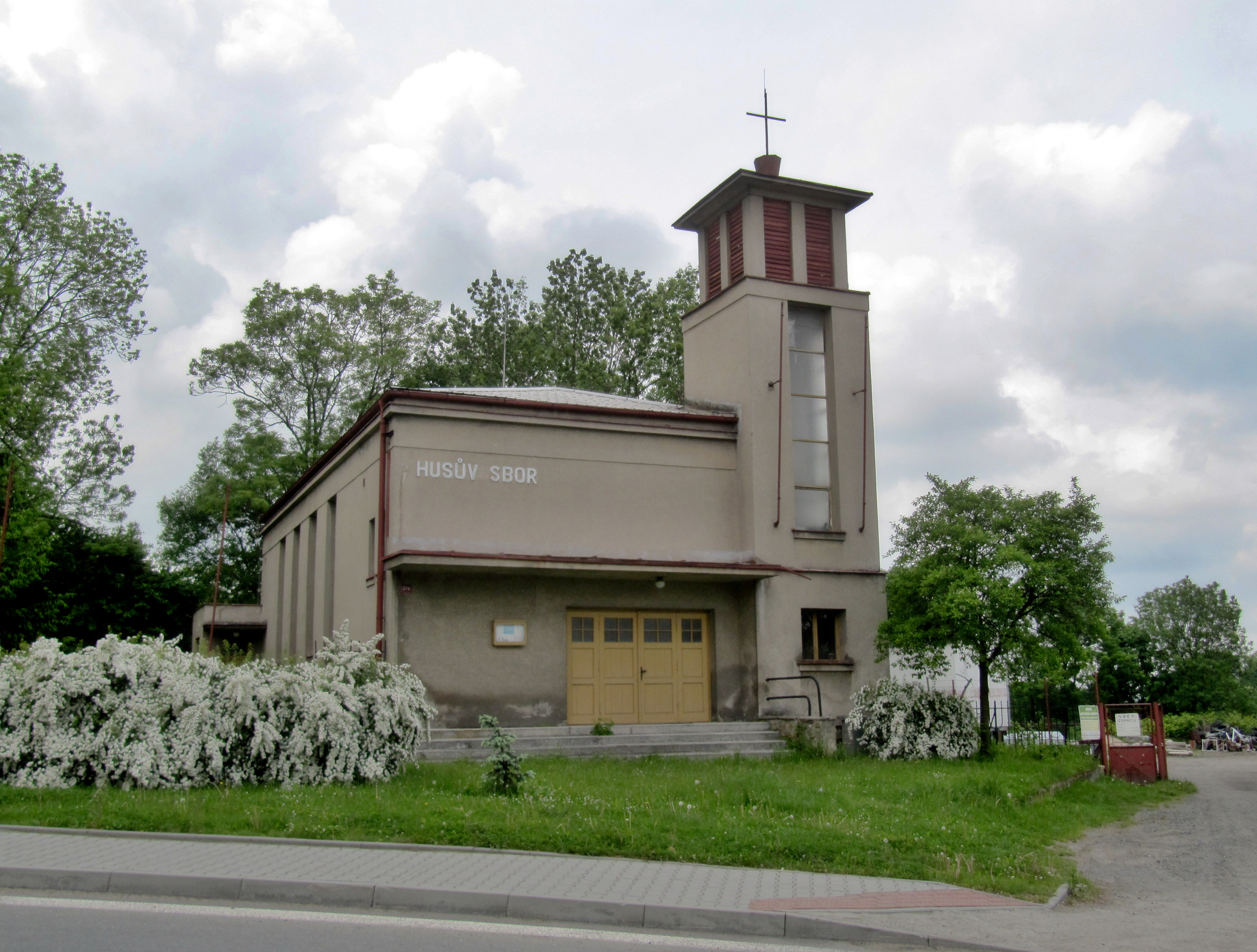 Zásmuky, Kolín District, Czech Republic.